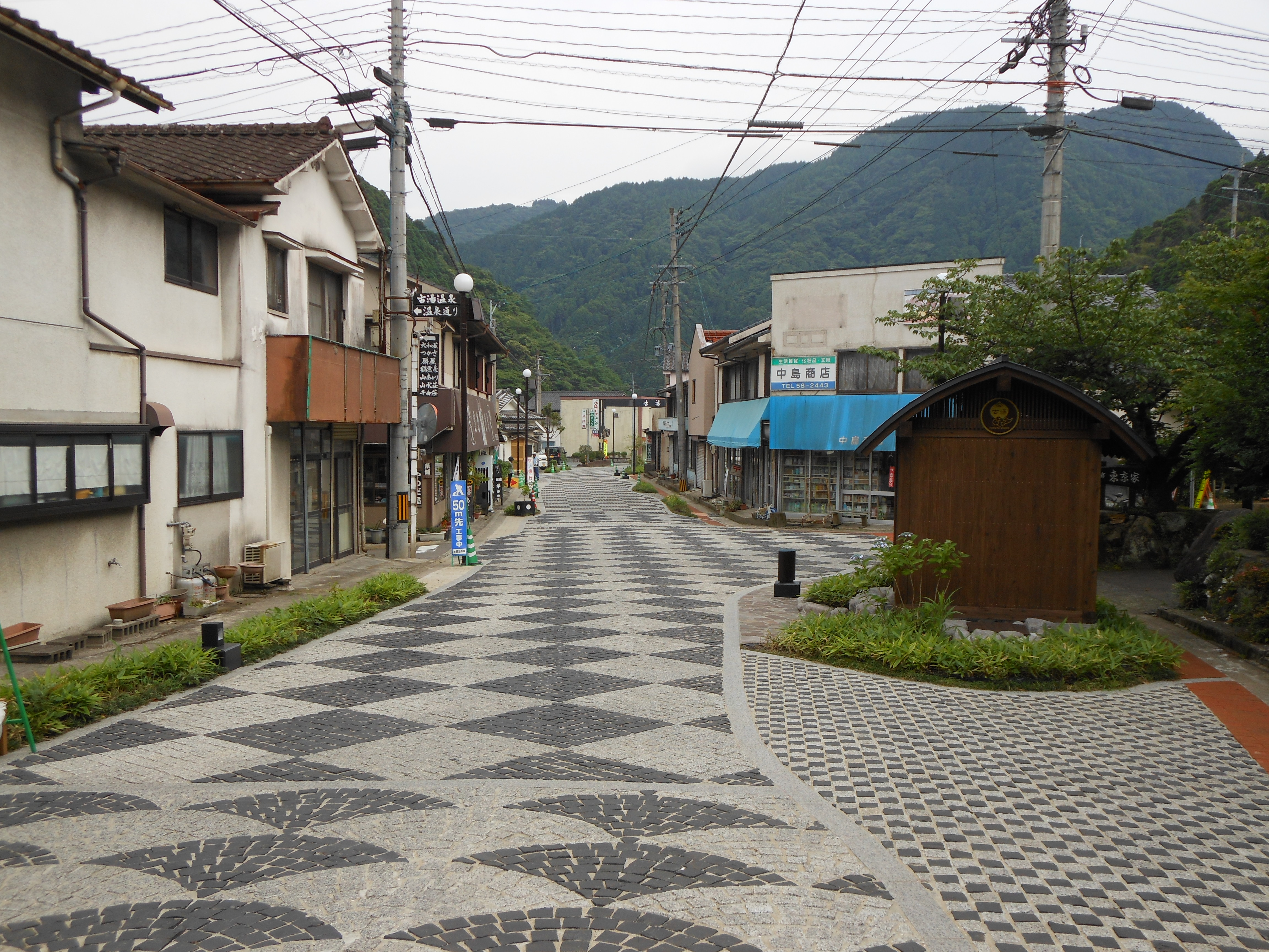 Onsen Street in Furuyu Spa, Furuyu, Fuji, Saga City.